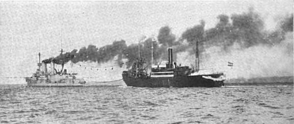 The German armored cruiser during coaling at sea experiments in February 1907. Scanned from